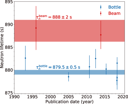 PDG and more recent measurement of τn. The shaded regions represent the standard error on the uncertainty-weighted mean lifetime in each class.